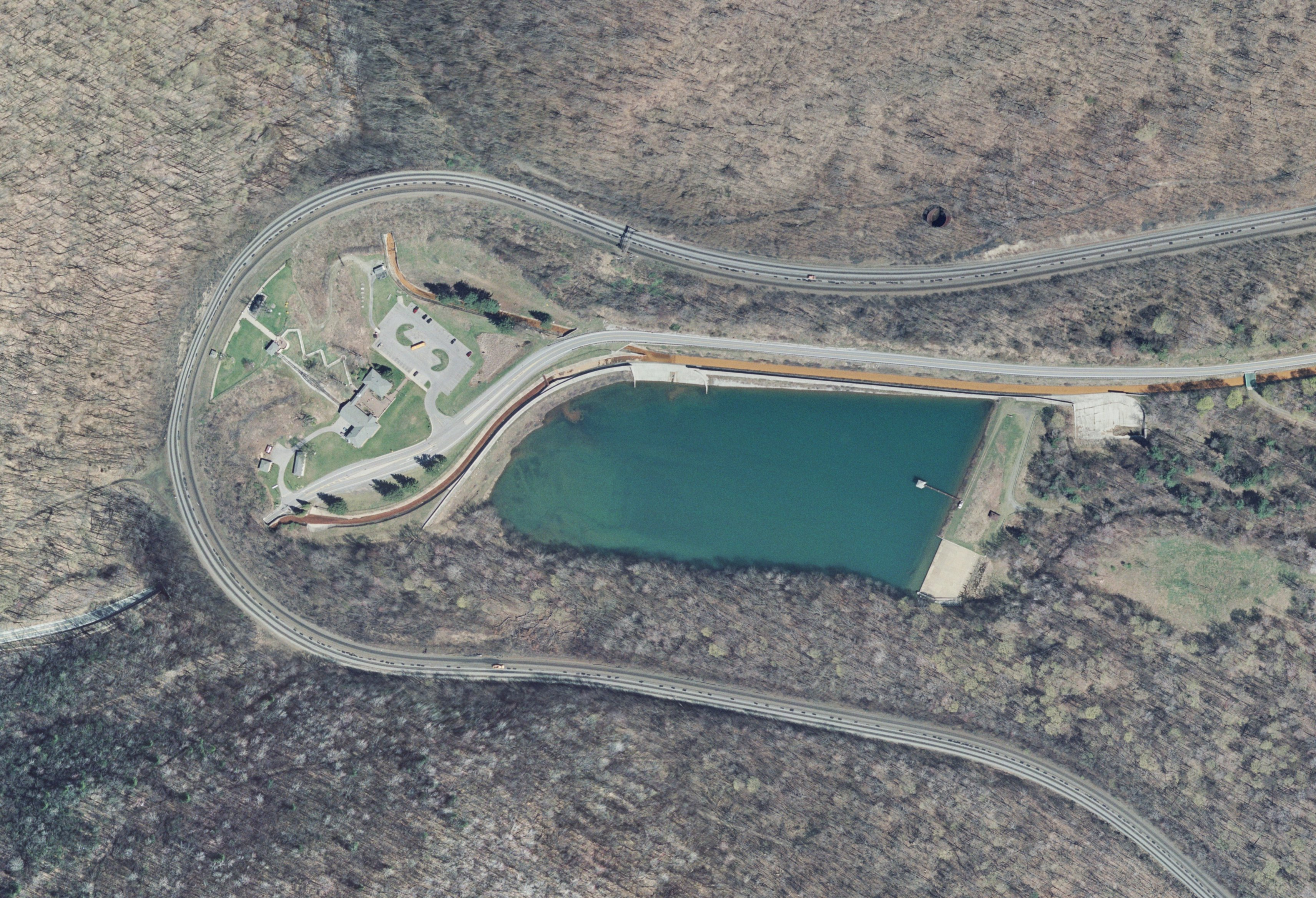 Orthoimage of the Horseshoe Curve in Blair County, Pennsylvania, outside of Altoona.